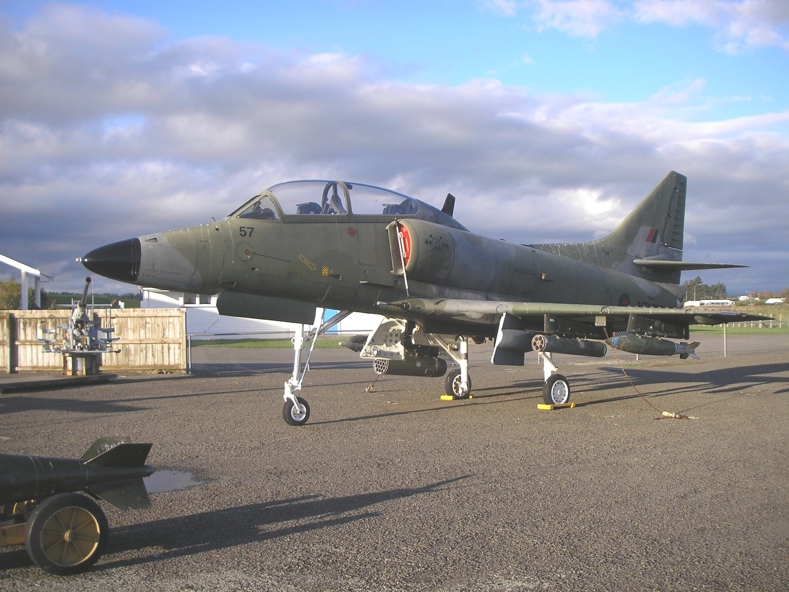 A reconstructed A-4 Skyhawk of No.75 Squadron RNZAF, this TA-4K Kahu Skyhawk was made entirely from spare parts for display. The only RNZAF Skyhawk stored outside, it was photographed in May 2007, the week before the Ohakea wing of the RNZAF Museum closed.